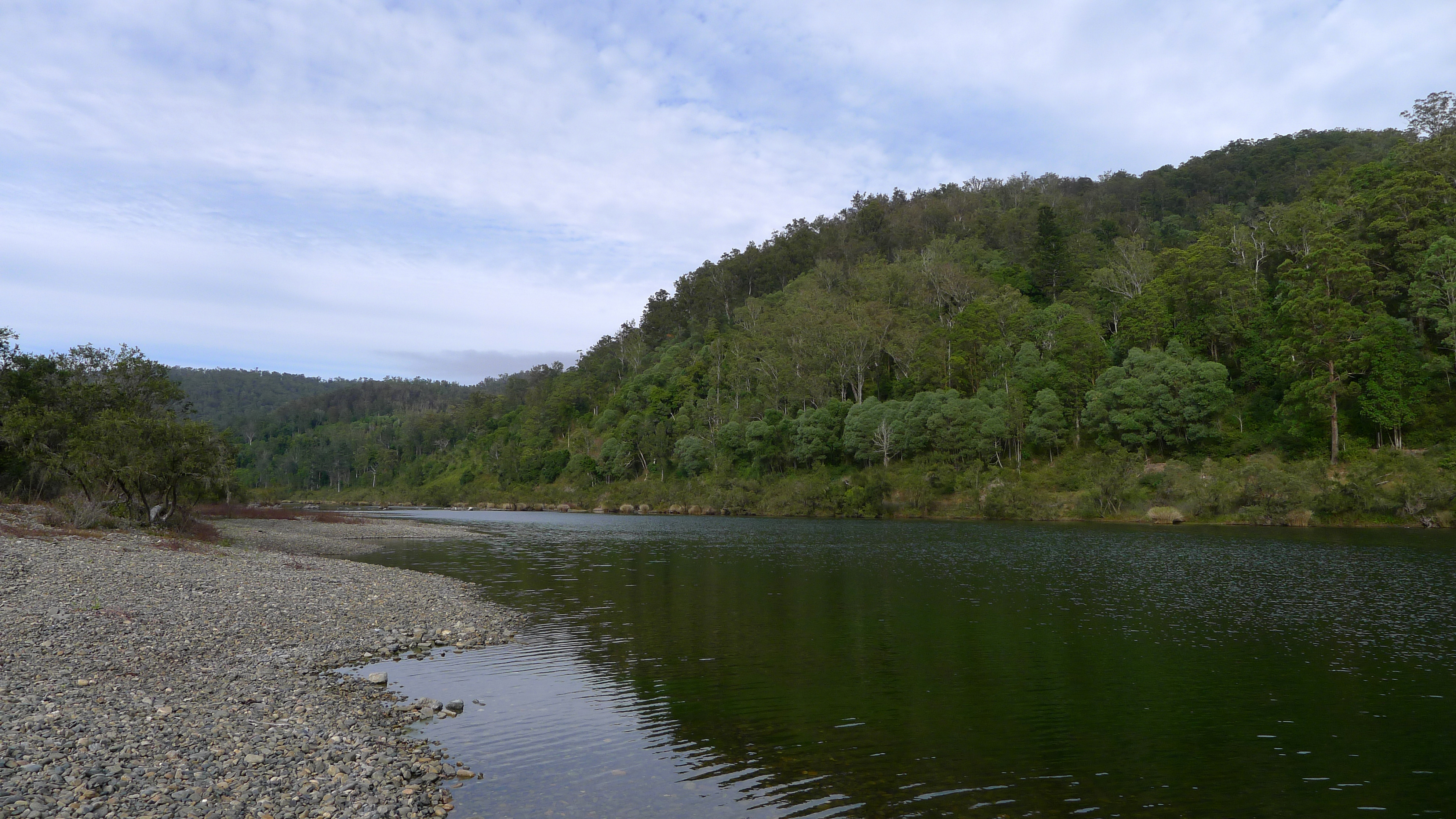 Nymboida River, Nymboida National Park. August 2014, NSW, Australia.